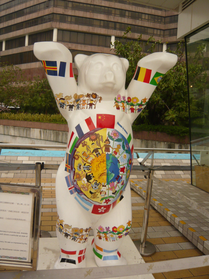 Buddy Bear in Hong Kong